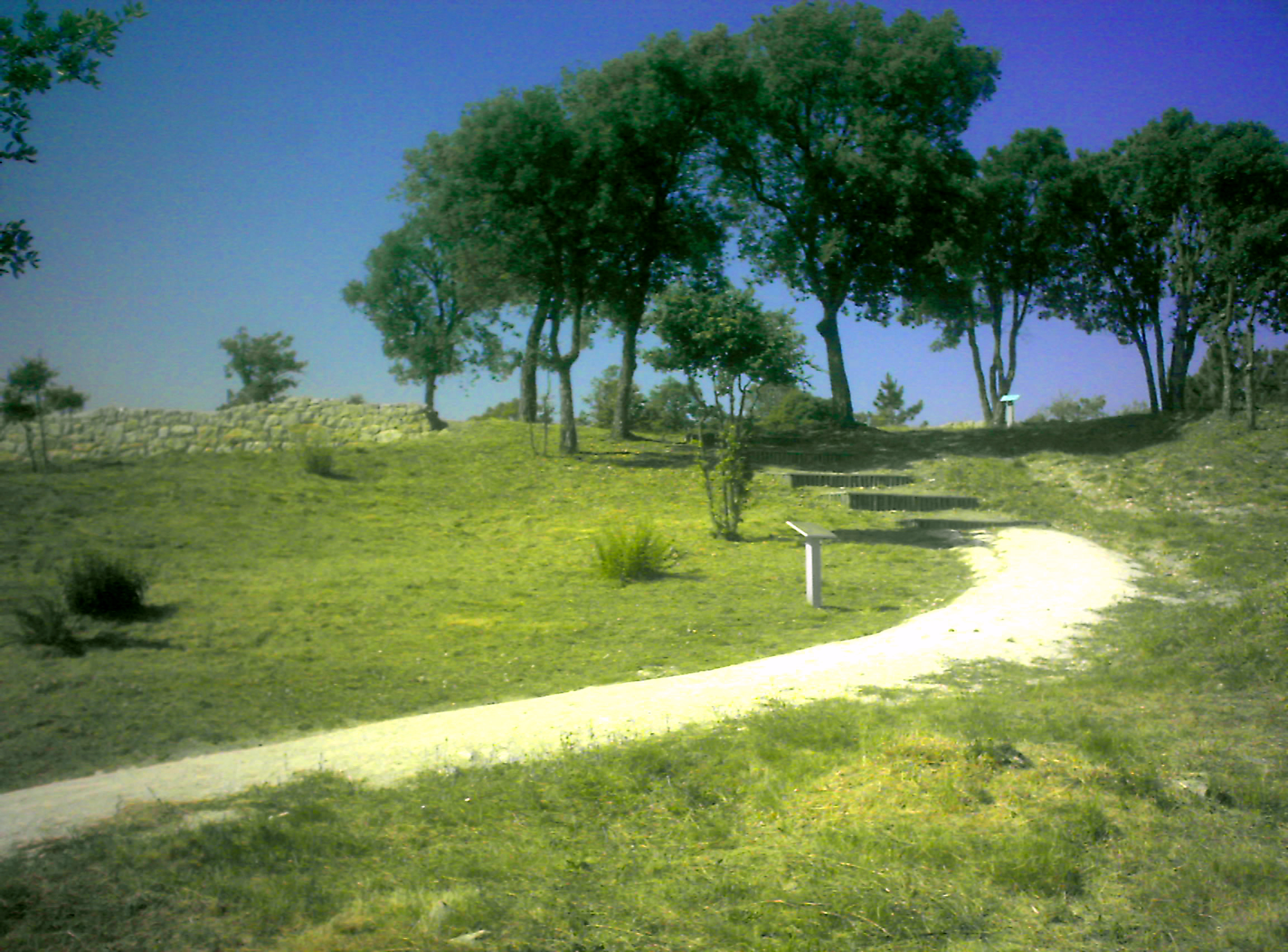 Access to the city photographer: PedroPVZ Taken: June 1st, 2006 Tirada a: 1 de Junho de 2006